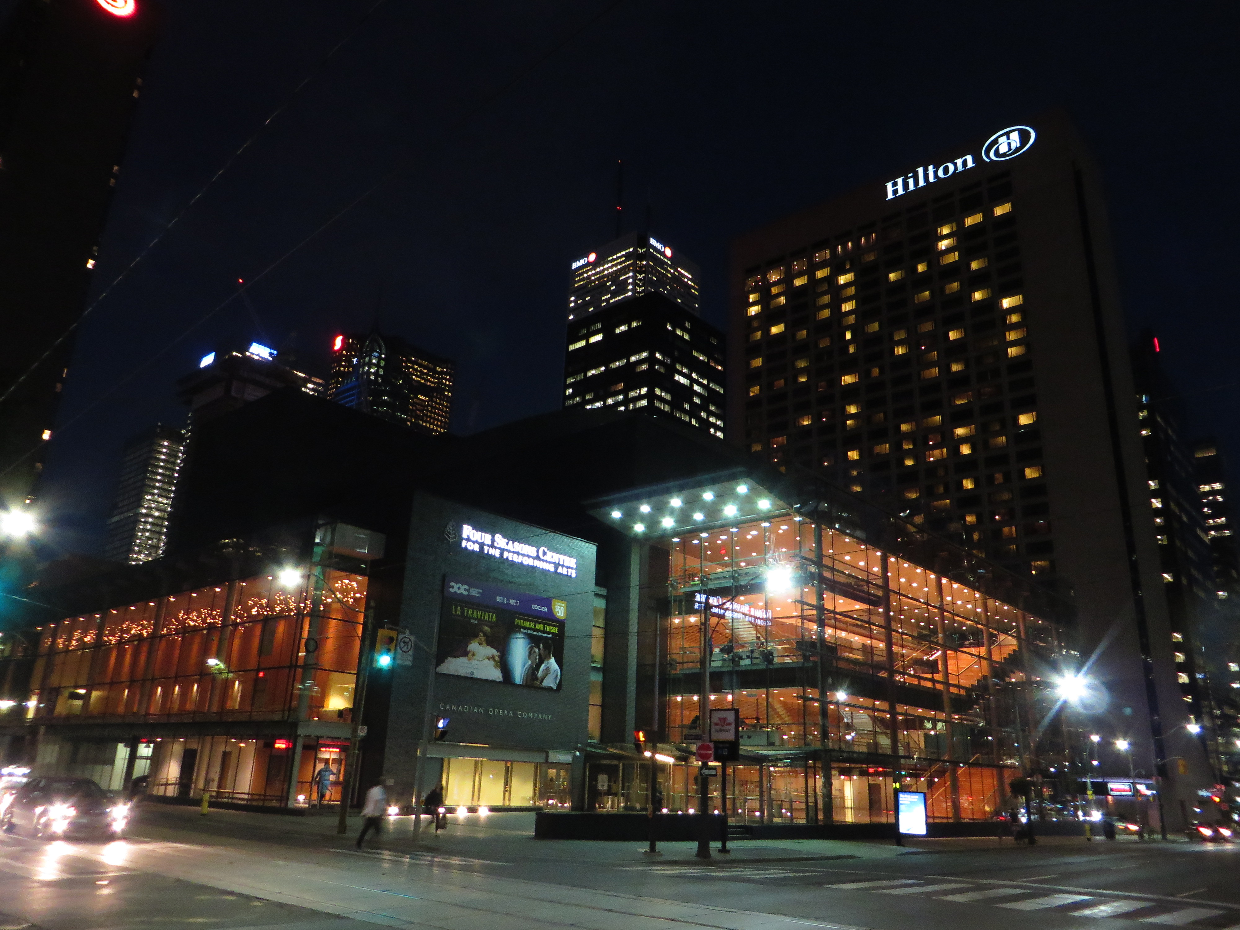 The Four Seasons Centre for the Performing Arts is a 2,071-seat theatre in Toronto, Ontario, Canada located at the southeast corner of University Avenue and Queen Street West, across from Osgoode Hall. The land on which it is located was a gift from the Government of Ontario. It is the home of the Canadian Opera Company (COC) and the National Ballet of Canada. After various setbacks from the 1980s onward, attempts by the COC to find a new permanent home led to the company issuing an invitation in 2002 for designs. Ten architectural firms submitted proposals and, from them, the Canadian company Diamond and Schmitt Architects, headed by Jack Diamond, was selected as the winner for its modernist design. The Centre had its grand opening on 14 June 2006, with regularly scheduled performances commencing on 12 September 2006 with the inaugural production in the new opera house being Richard Wagner’s epic tetralogy Der Ring des Nibelungen (The Ring of the Nibelung). Governor General Michaëlle Jean and numerous other Canadian luminaries attended the event. Three complete Ring Cycles were performed in September 2006.